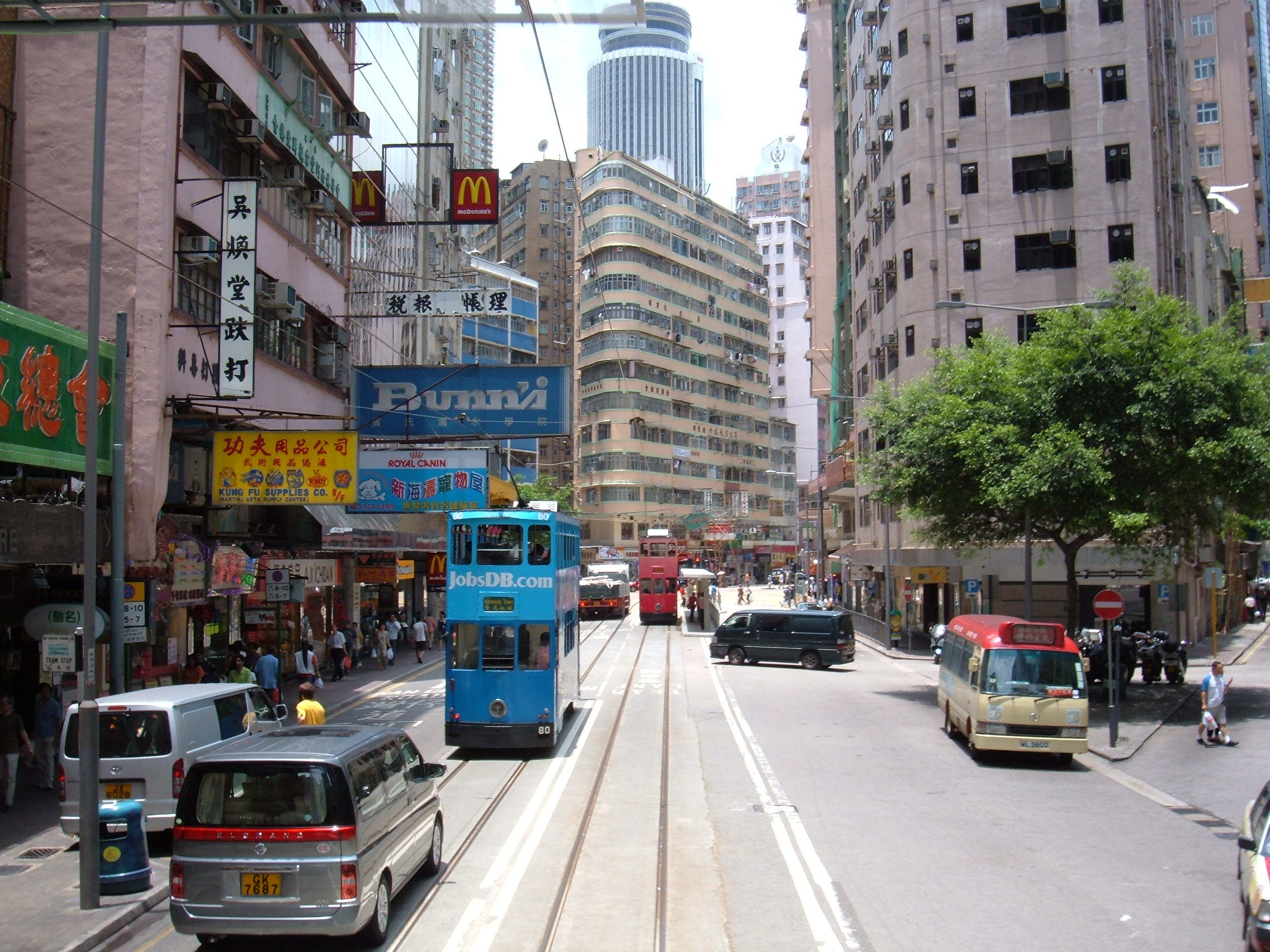 Trams running along Johnston Road, Wan Chai, Hong Kong.